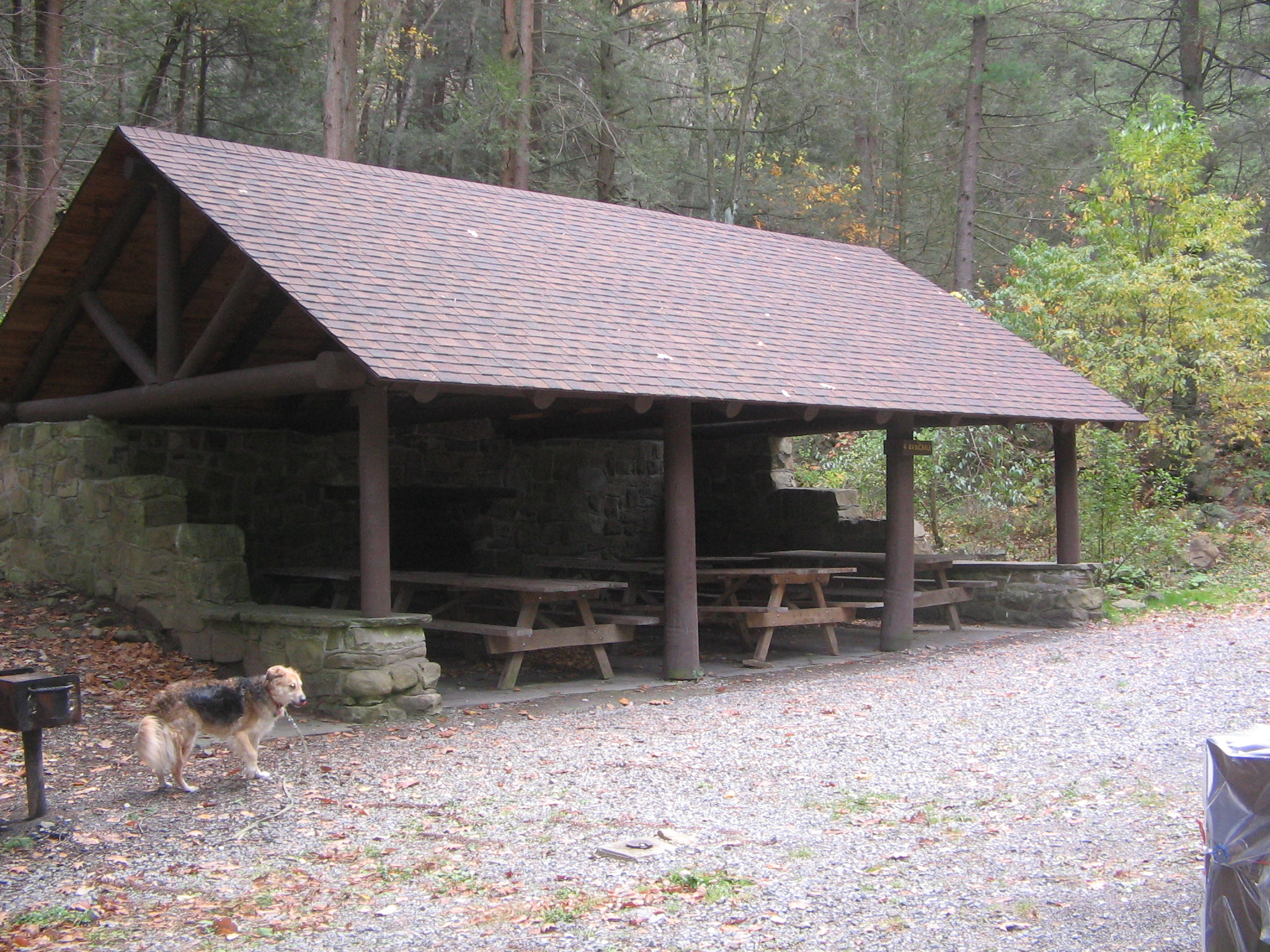 Picnic Shelter built by the Civilian Conservation Corps in Ravensburg State Park, Clinton County, Pennsylvania, USA.